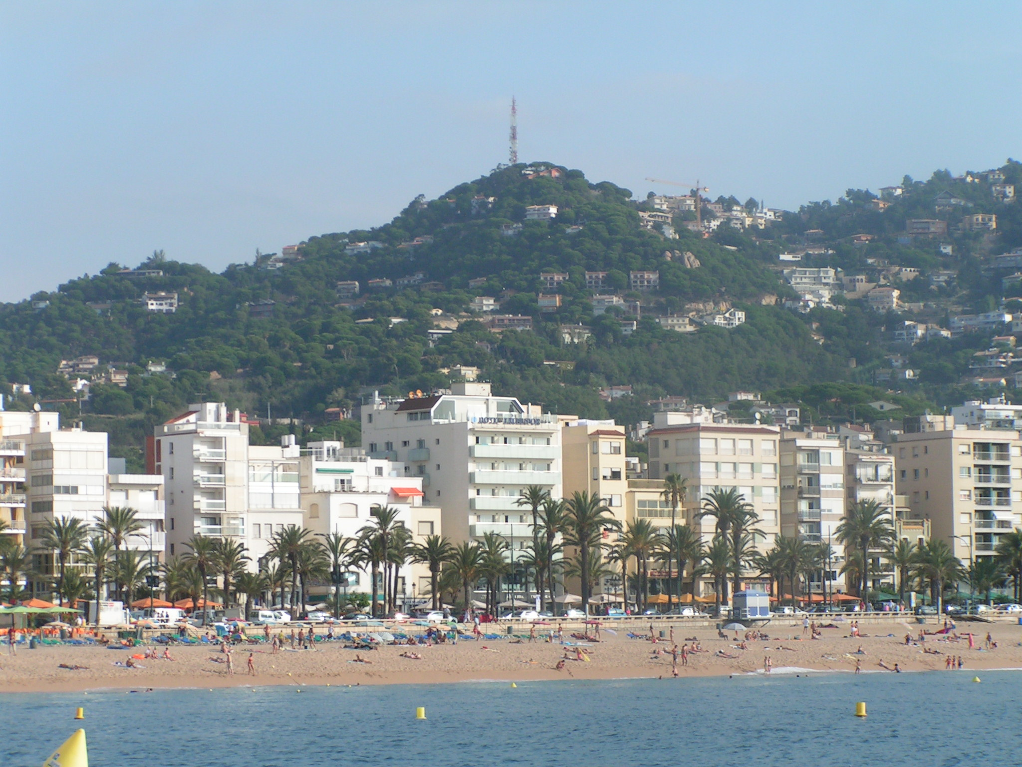 Lloret de Mar (Costa Brava) and its mountains, viewed from the sea